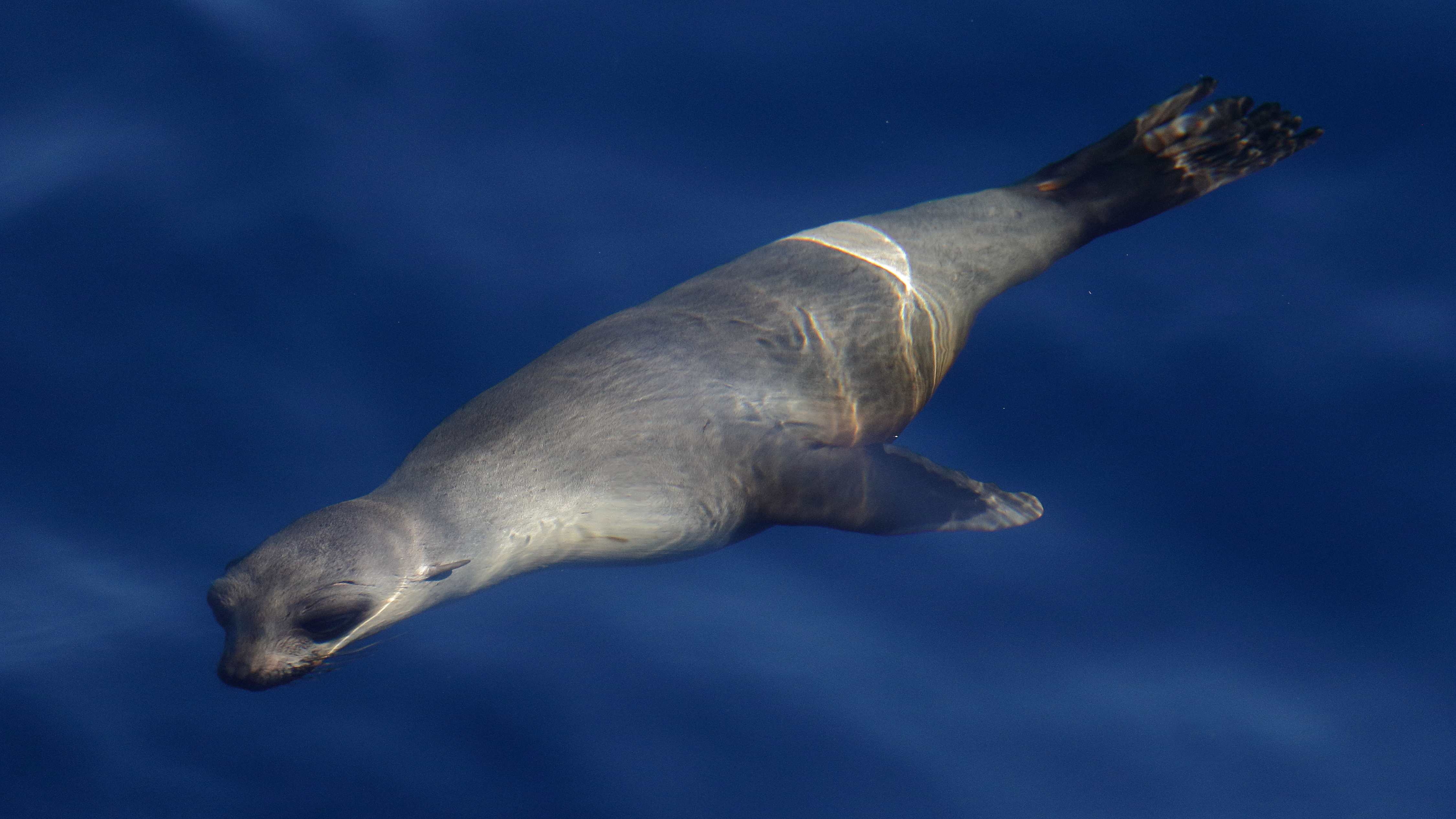 Port Fairy. Victoria.